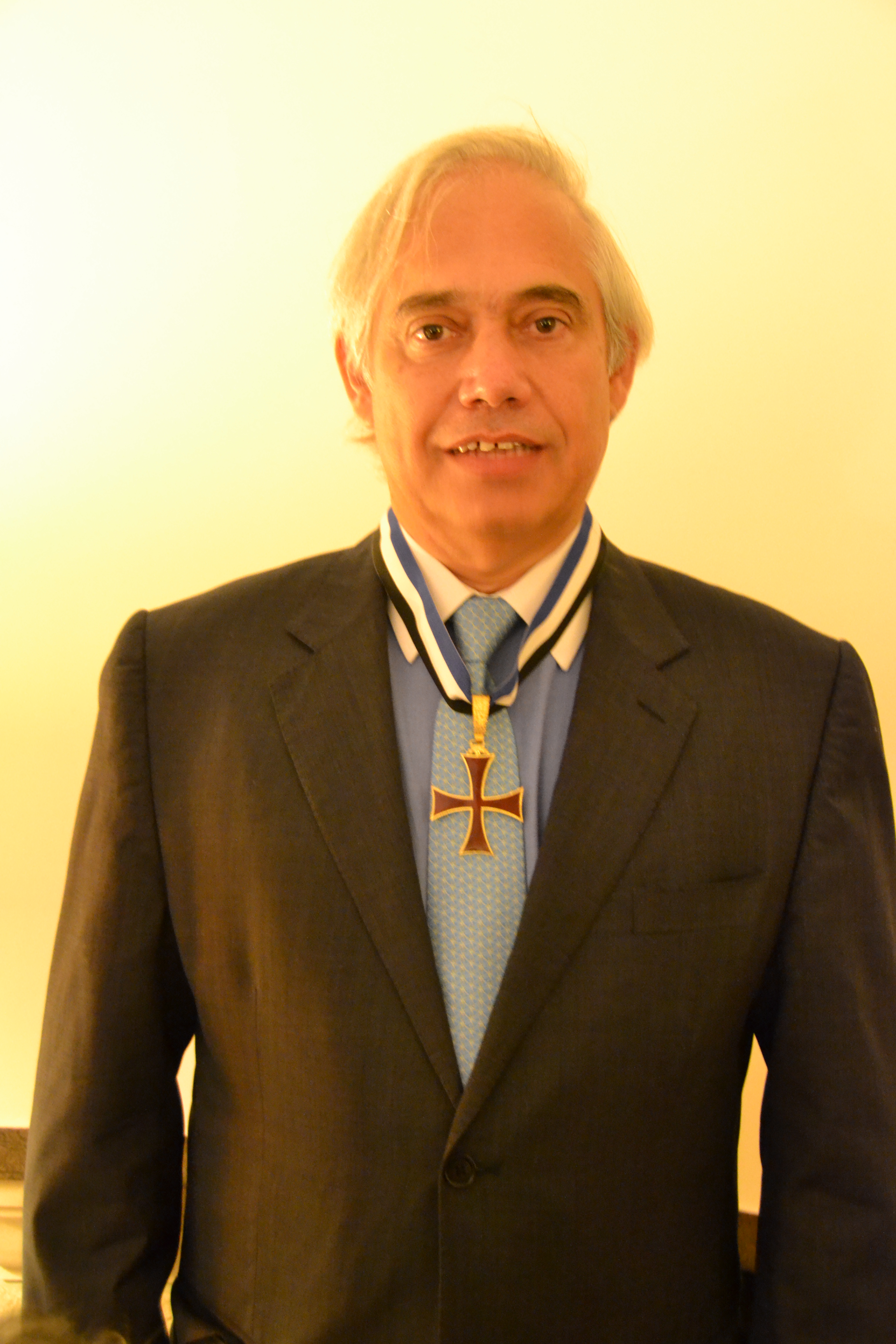 Fernando Frutuoso Melo